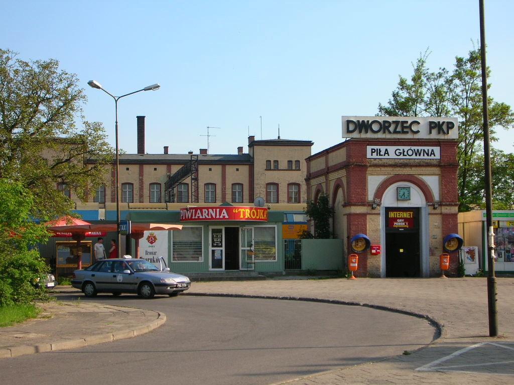 Main station of the city of Piła, Poland (in German Schneidemühl)